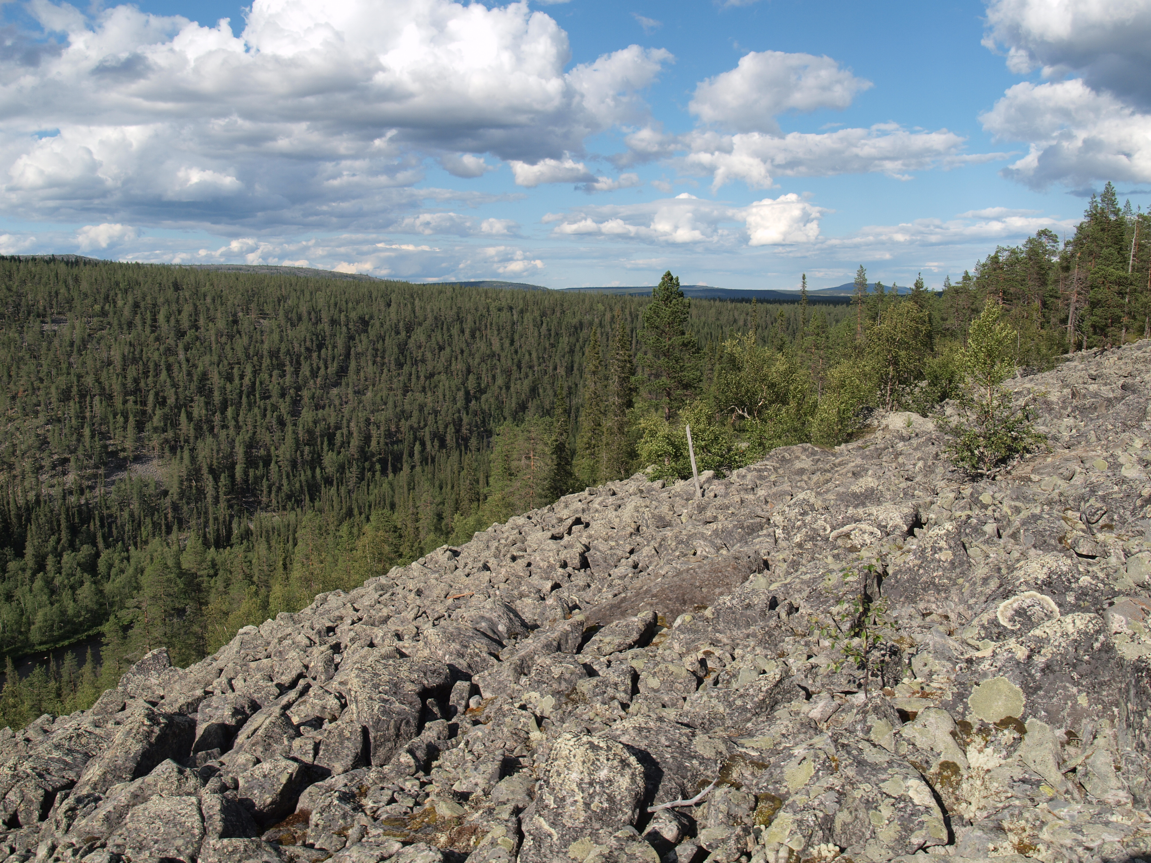 A steep, rocky cliff face at the upper edge of the Nuorttijoki canyon in Savukoski, Lapland, Finland.